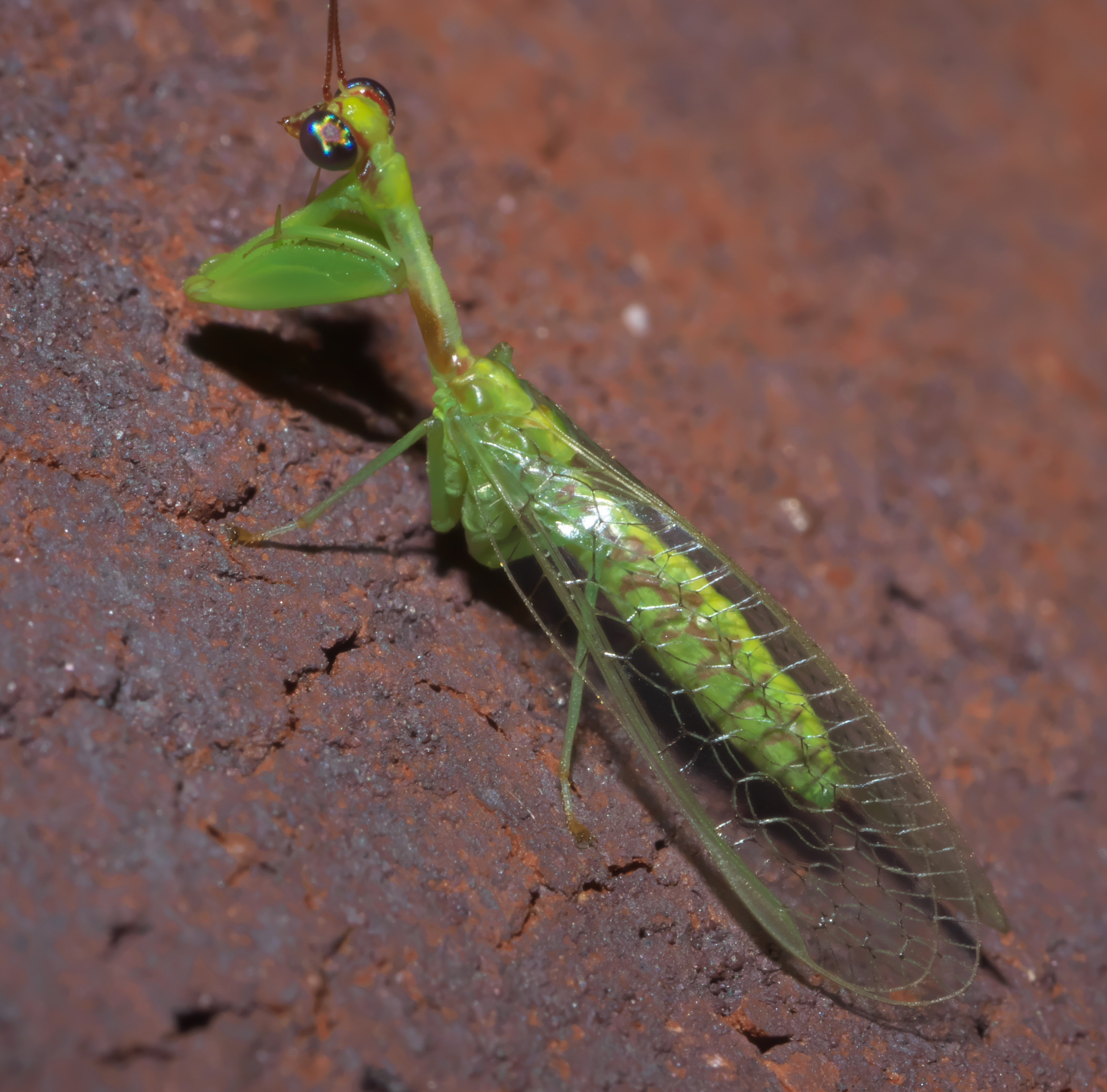 Zeugomantispa minuta, Green Mantisfly, ID Confidence: 87